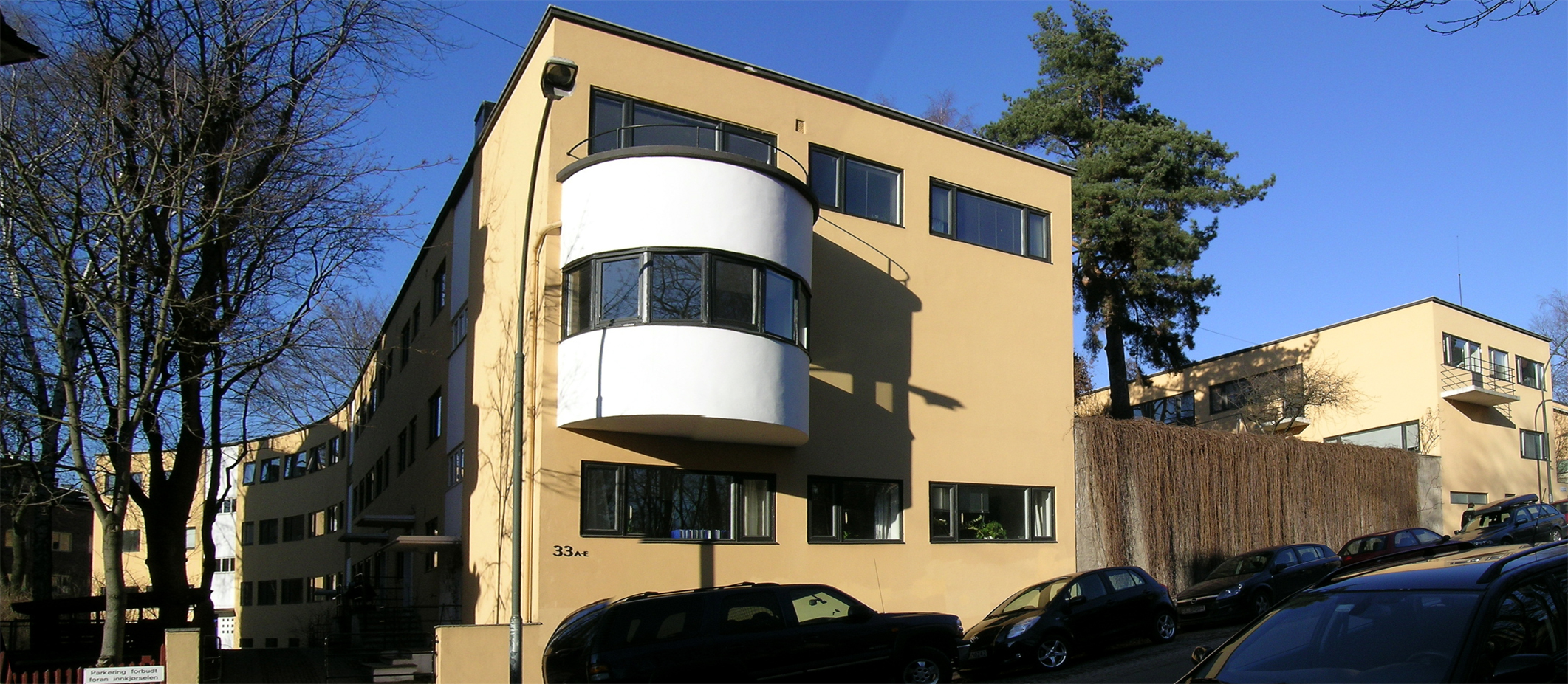 Professor Dahls gate 31b-d and 33, Oslo. Apartment blocks built 1930; architect Frithjof Reppen (1897–1945).